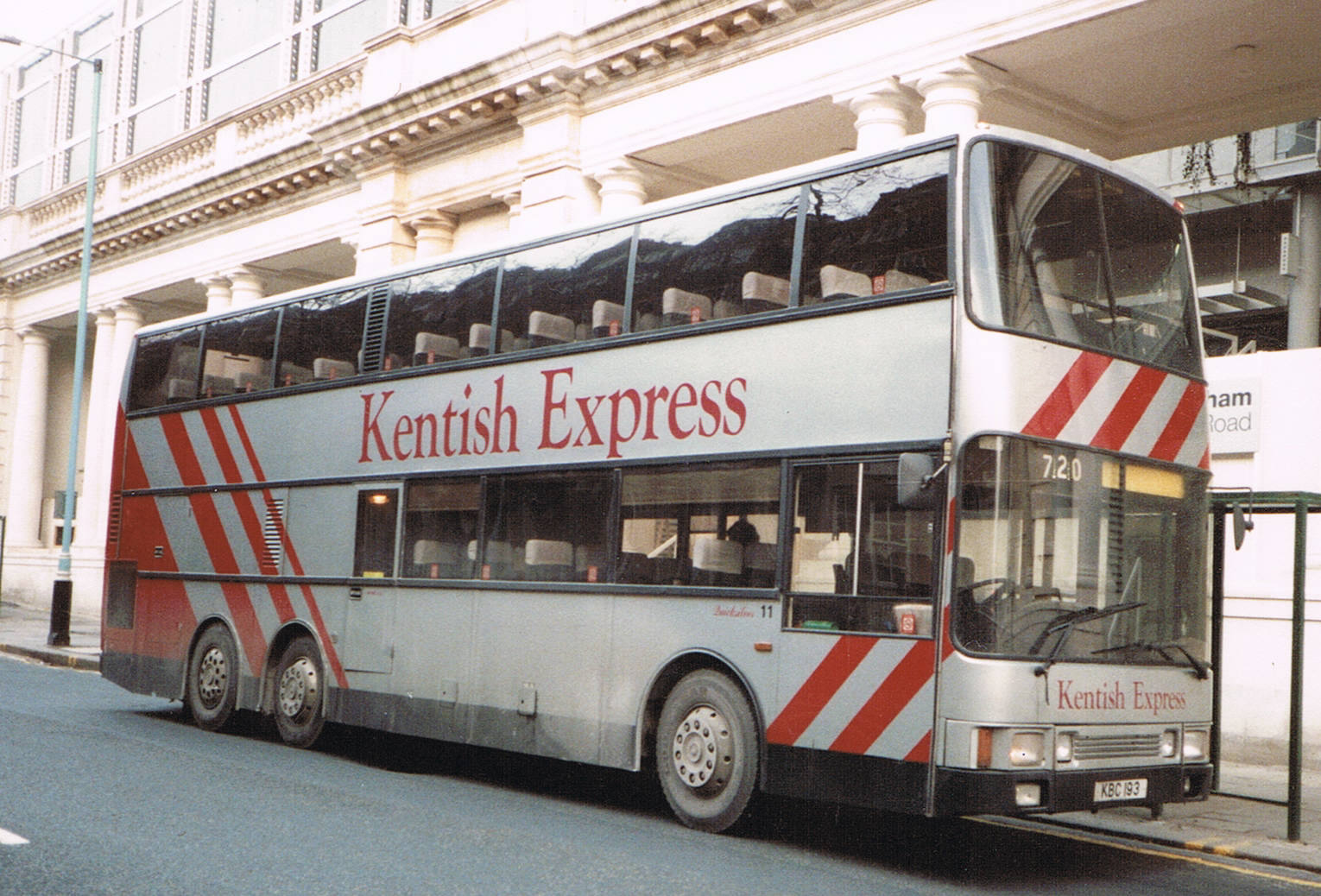 KBC 193 MCW Metroliner seen in Buckingham Palace Road, London.